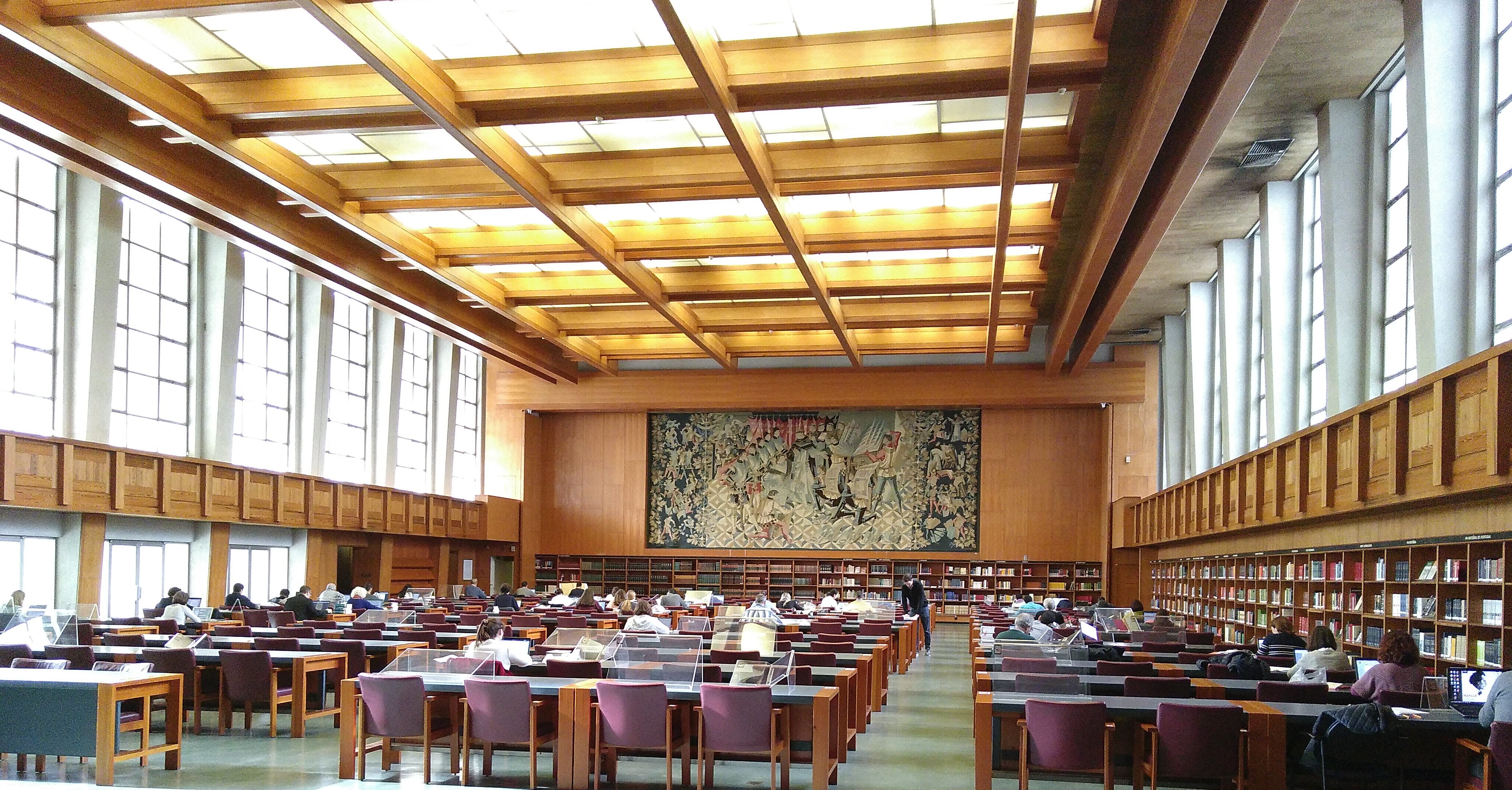 picture taken at the entrance of the reading room on 28 November 2019